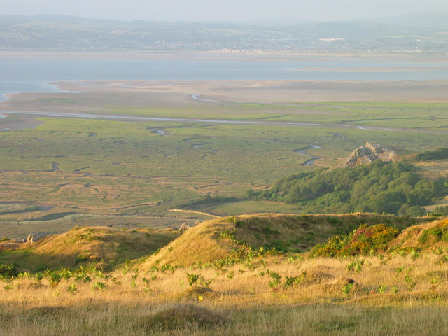 The Bulwark Concentric mounds of the hill fort known as the Bulwark. There are superb views to be had including this one showing North Hill Tor overlooking the salt marsh of the Great Pill.